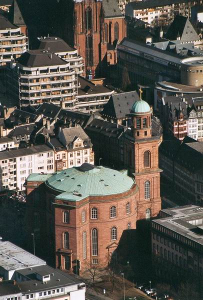 Paulskirche in Frankfurt, Germany Originally from german wp: description was "(p) A. Darmochwal, Bild ist pd"